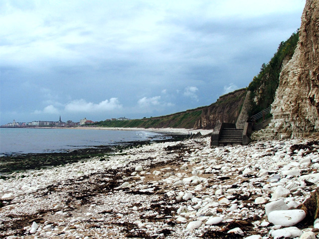 Steps onto Sewerby Rocks, Sewerby, East Riding of Yorkshire, England.Steps leading from the cliffside footpath down onto Sewerby Rocks. Bridlington's North Sands and the sea front can be seen in the distance.